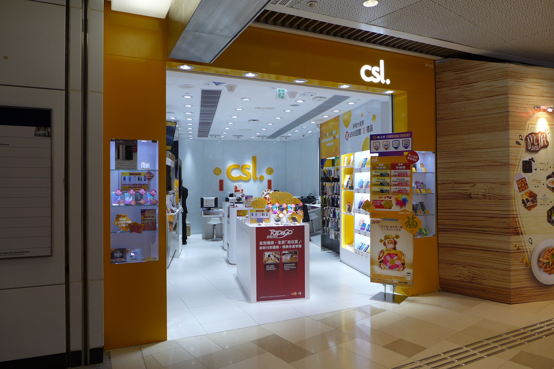 CSL Store in V City